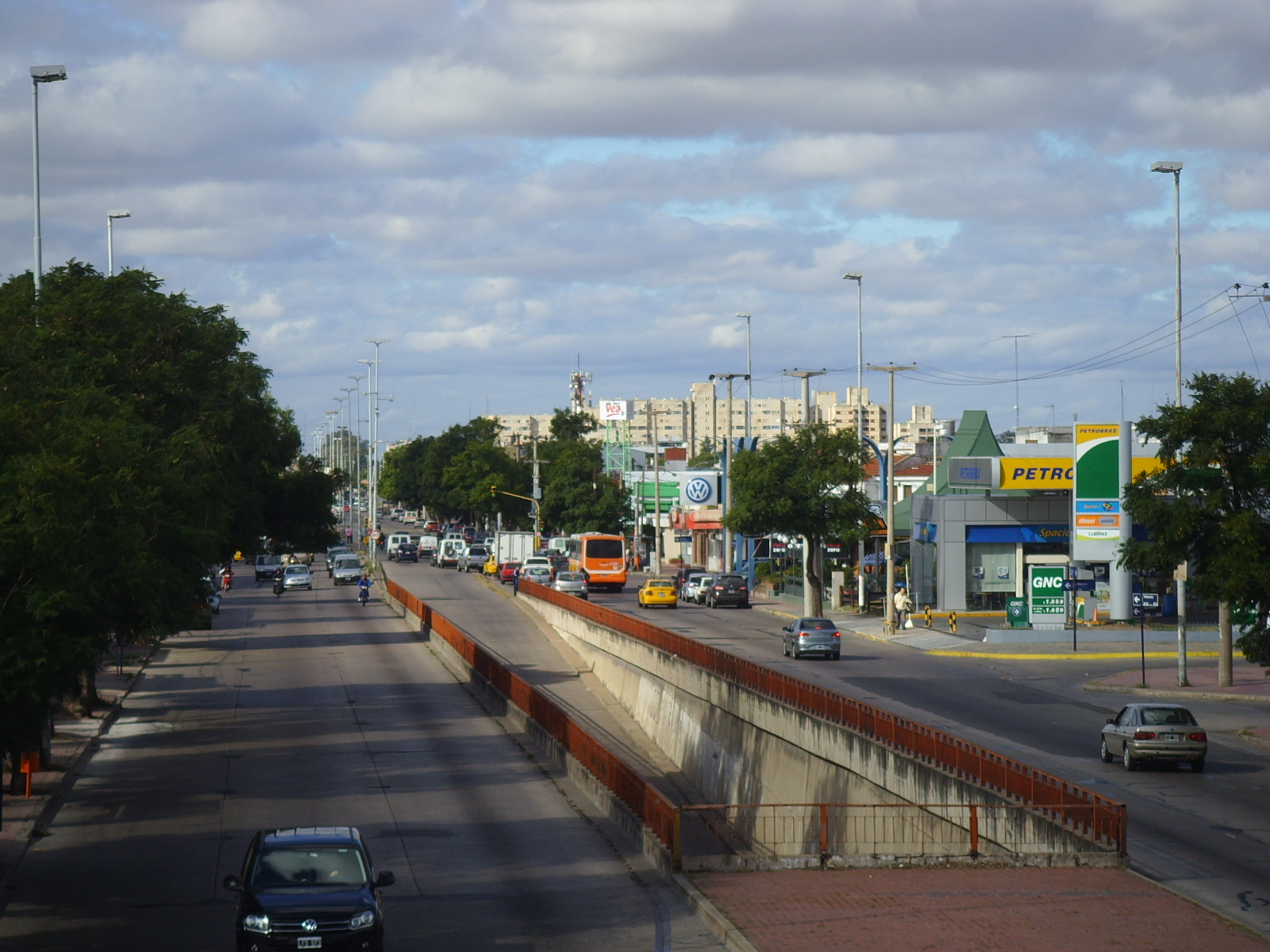 Av. Sabattini, Barrio Cólon and Barrio Rivadavia, Córdoba, Argentina